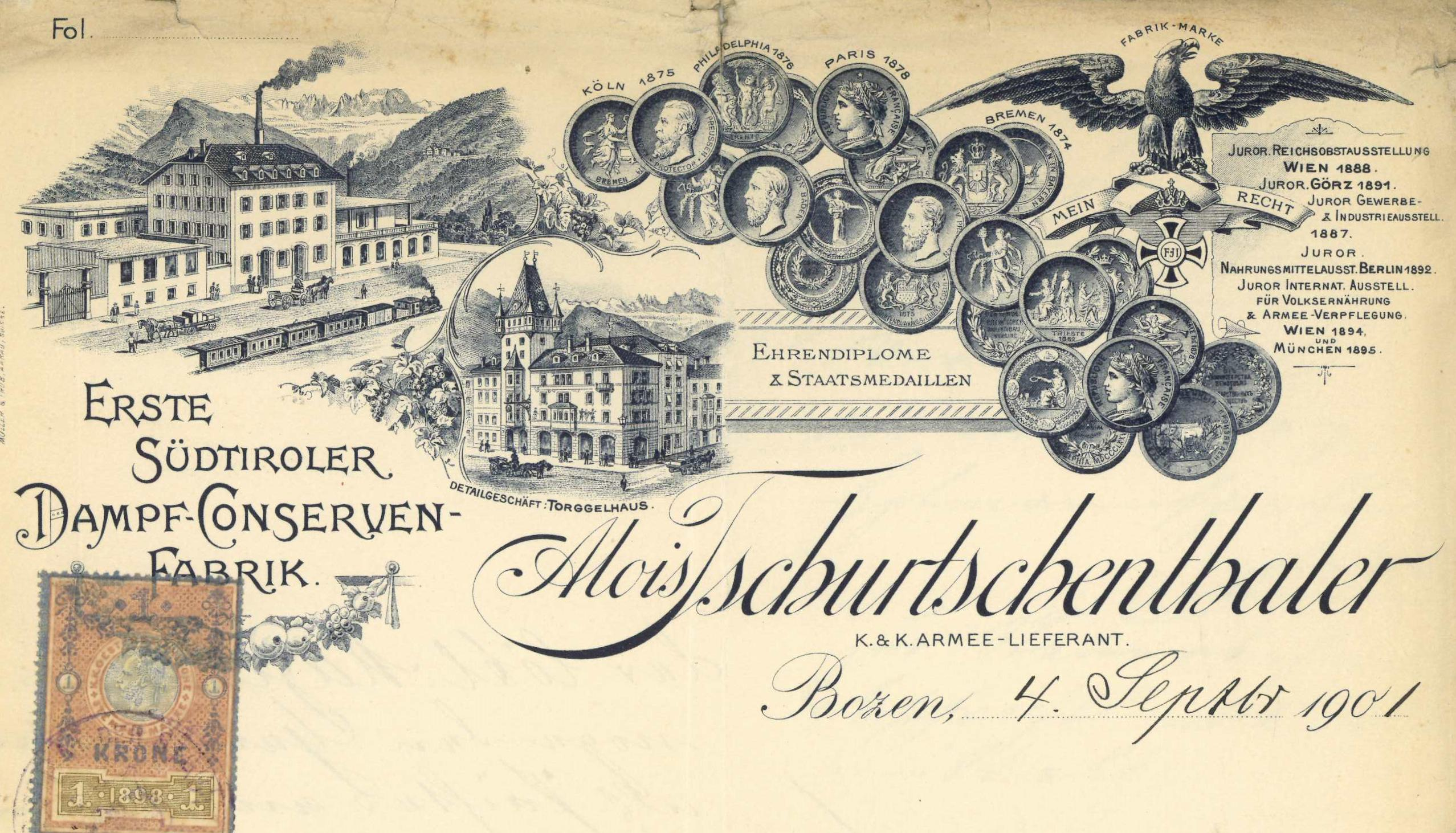 Advertisement for tin cans for fruits and vegetables, 1901